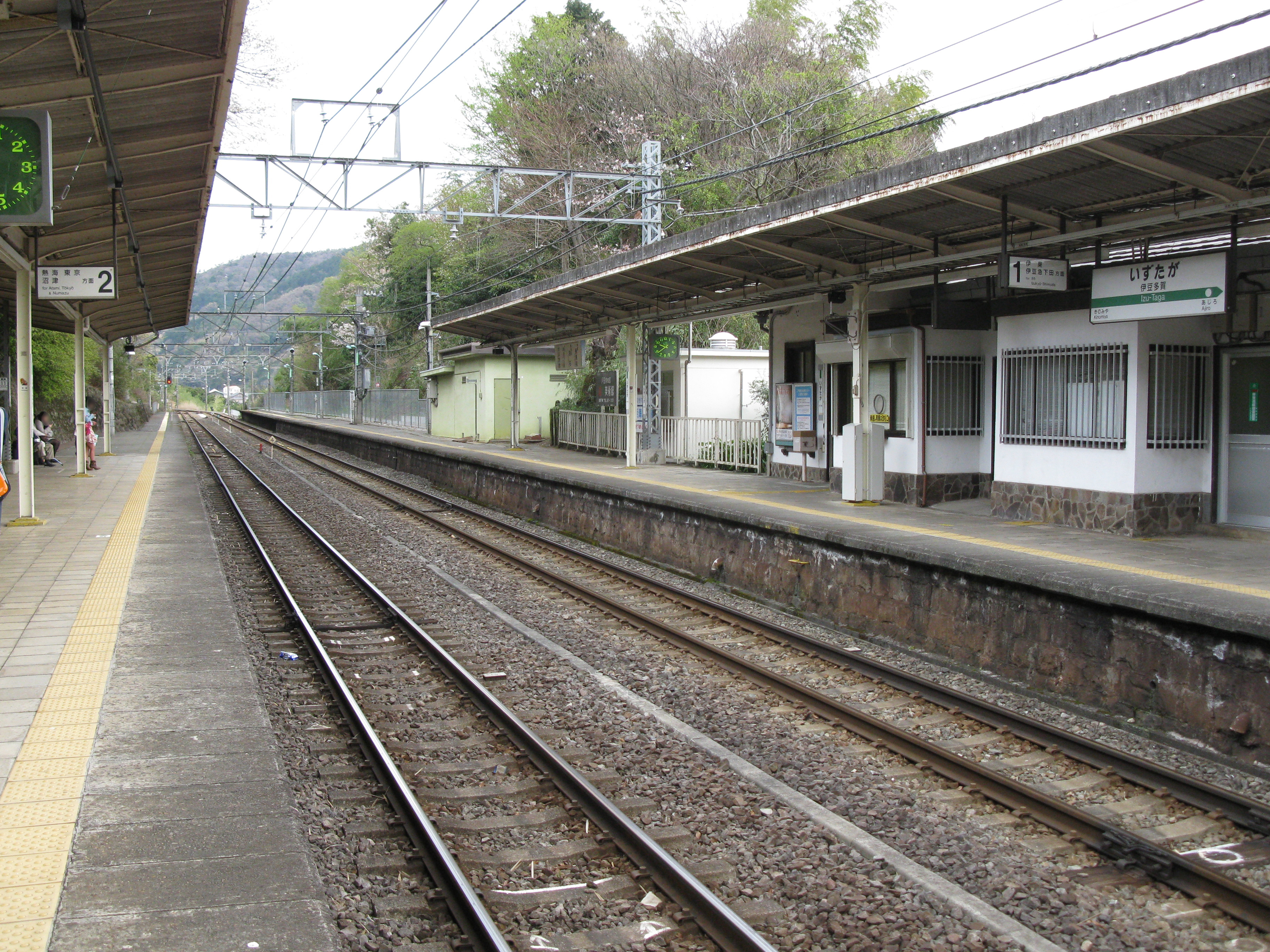 Izu-Taga Station platform (East Japan Railway(JR East) Itō Line)